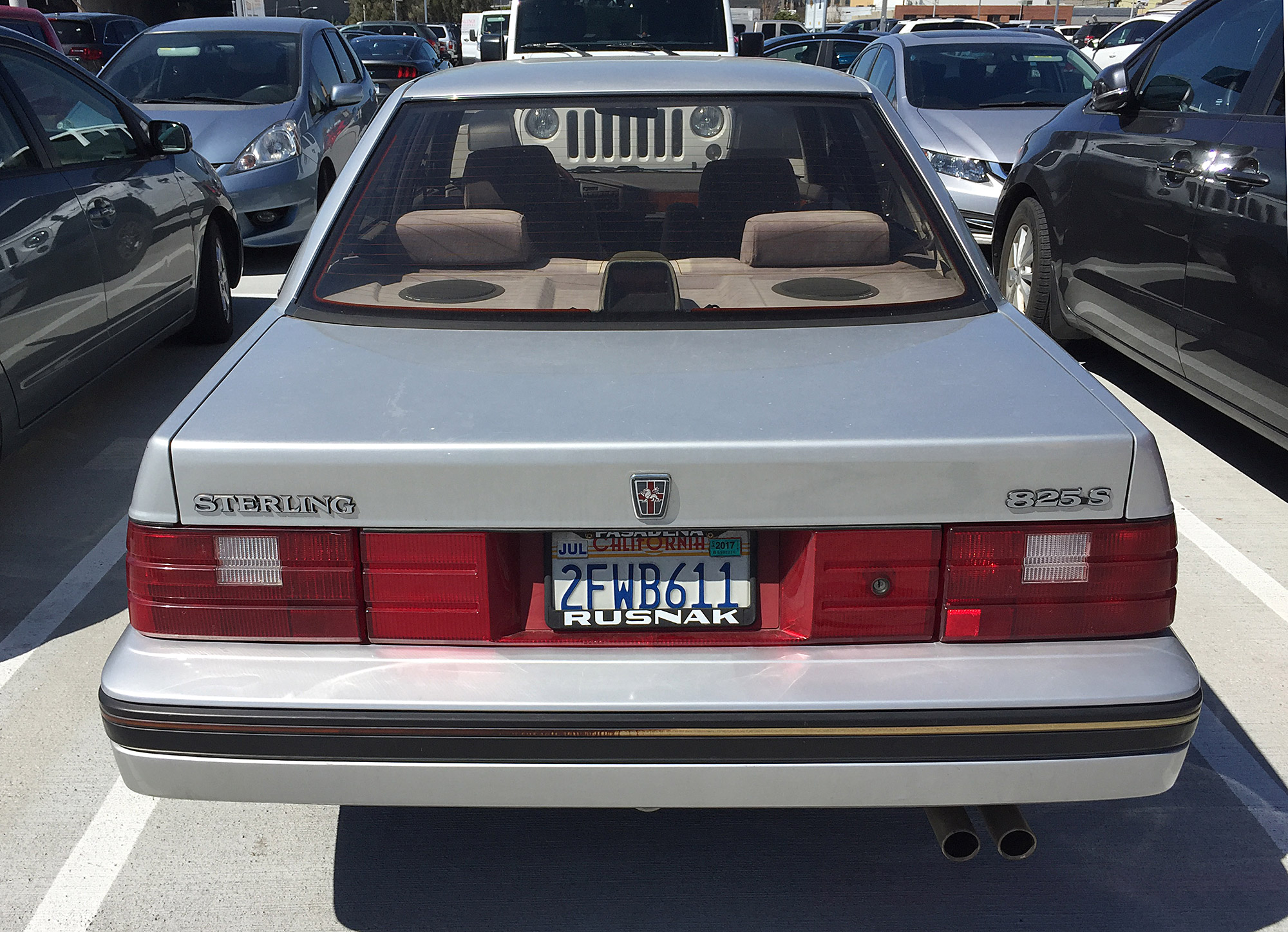 Sterling is the name for the Rover 800 in the American market.